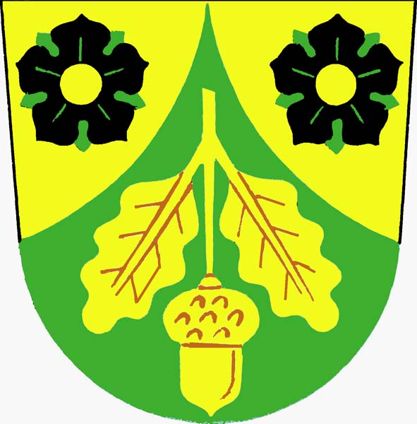 Emblem of municipal Lopeník (Czech republik)